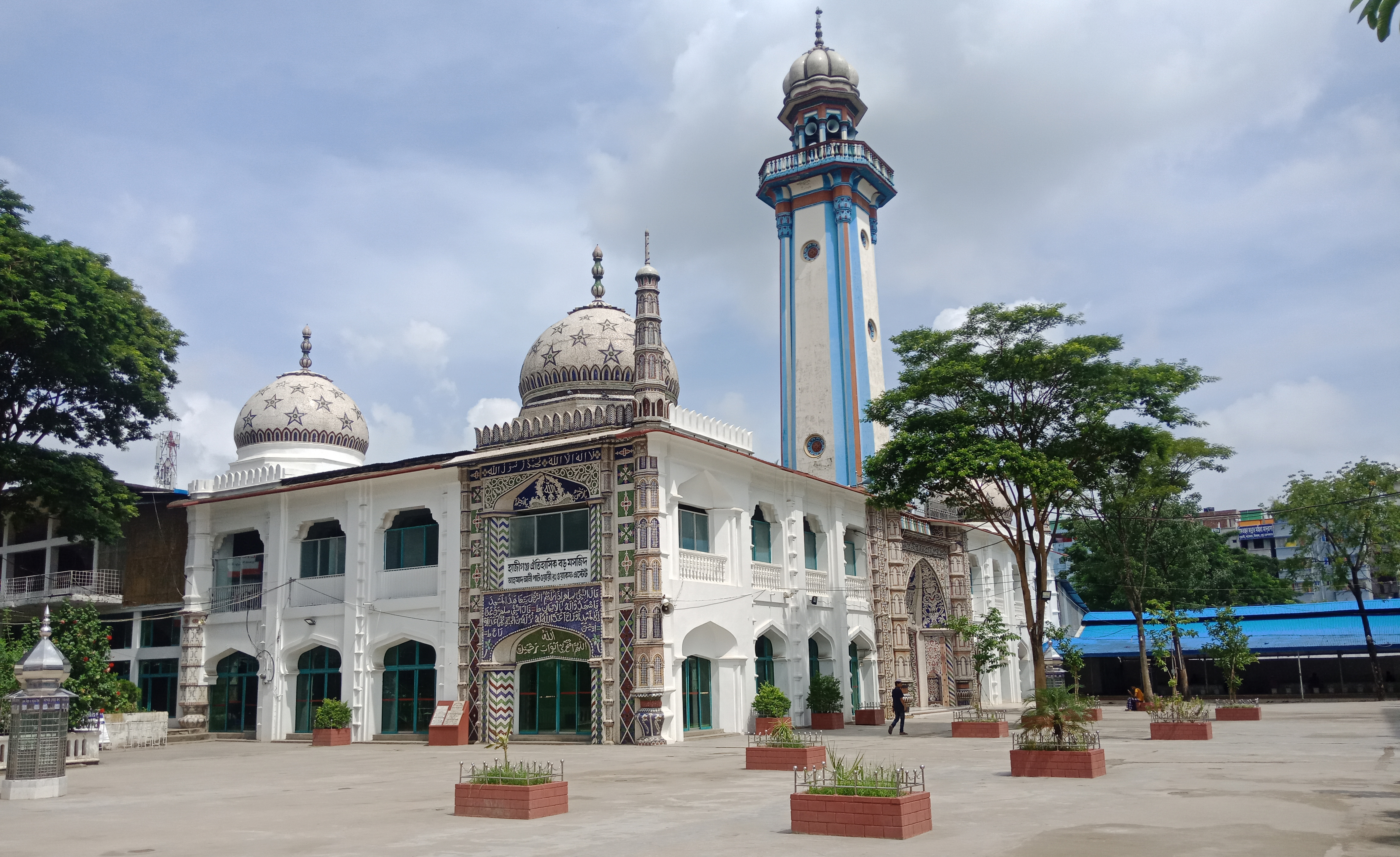 Hajigonj big mosque in chandpur, Bangaldesh.